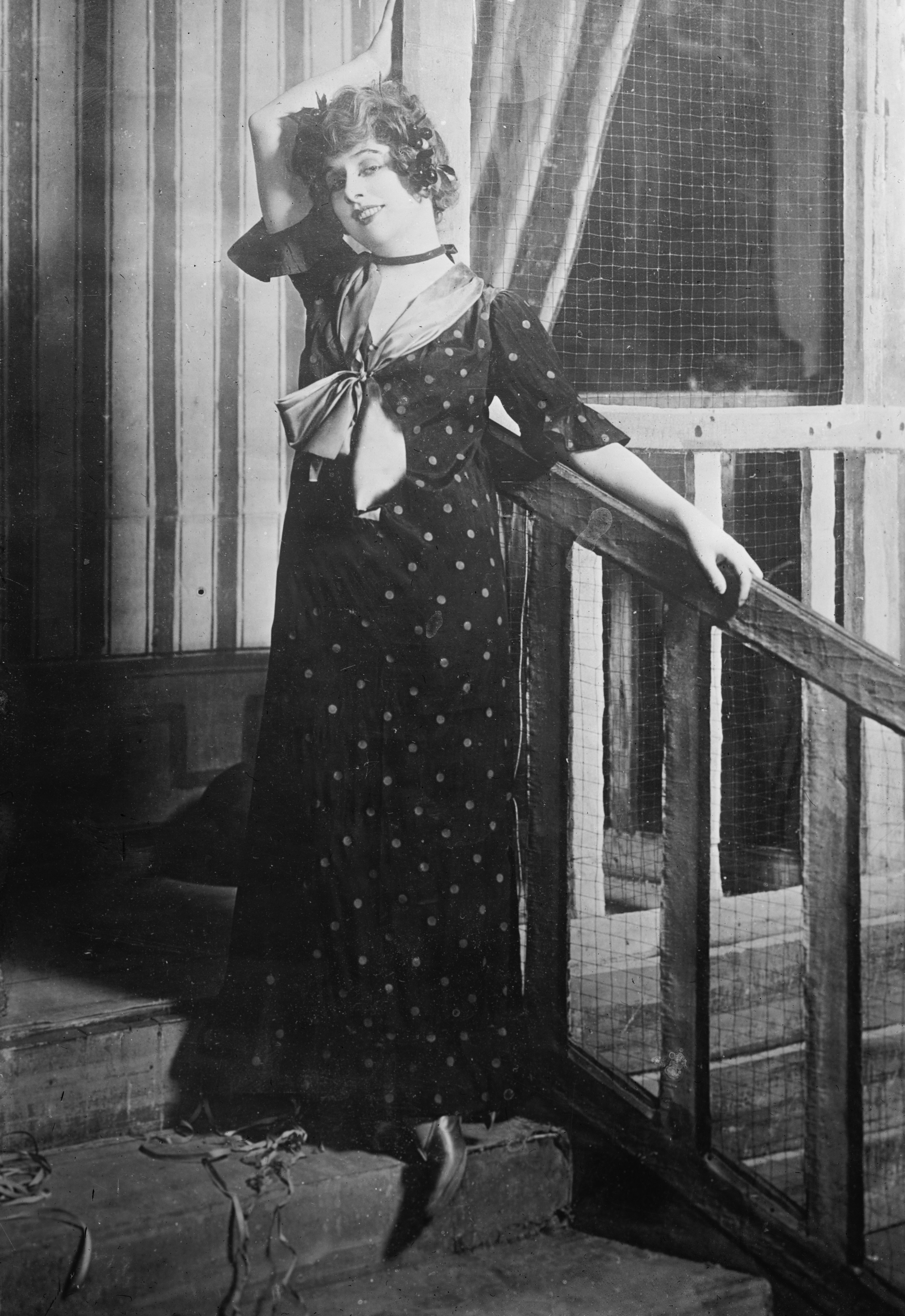 Farrar in "Julien" (LOC) Bain News Service,, publisher. Geraldine Farrar in "Julien" [between ca. 1910 and ca. 1915] 1 negative : glass ; 5 x 7 in. or smaller. Notes: Title from unverified data provided by the Bain News Service on the negatives or caption cards. Forms part of: George Grantham Bain Collection (Library of Congress). Format: Glass negatives. Repository: Library of Congress, Prints and Photographs Division, Washington, D.C. 20540 USA, General information about the Bain Collection is available at Persistent URL: Call Number: LC-B2- 3020-10